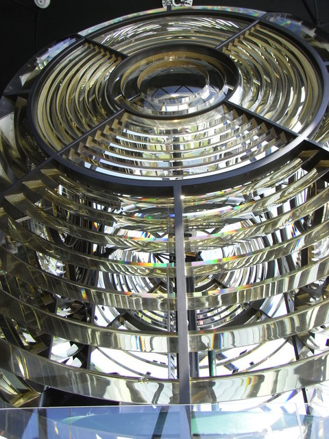 The Lizard Light The enormous optic that floats in a bath of mercury. Originally powered by clockwork it is now powered by duplicated electric motors and has a 1,000,000 candlepower bulb that is replaced every 6000 hours. The bulb is permanently lit and automatically backed up. The light is visible from 26 miles. All the UK's lighthouses are now fully automated.